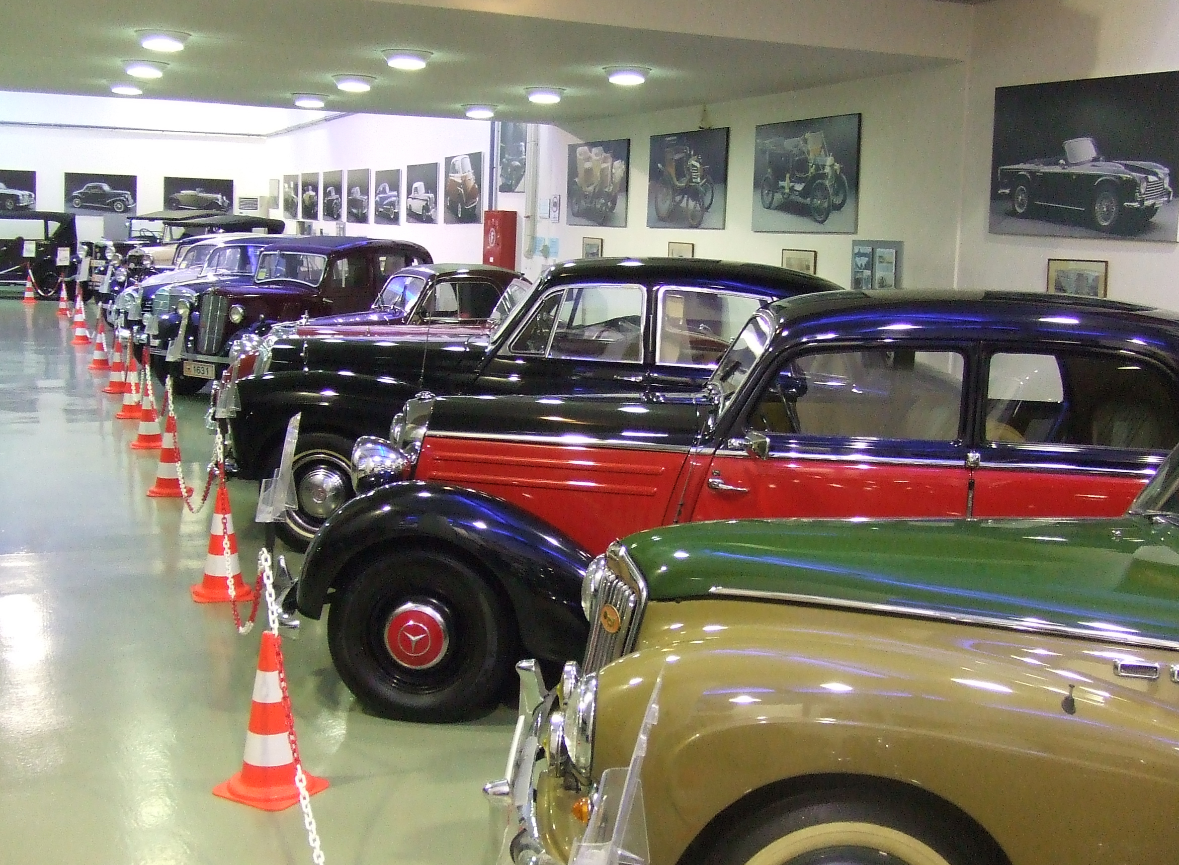 In private car museum "O Phaeton" in Oropos (Attica)/Greece. Photo: Christos Vittoratos